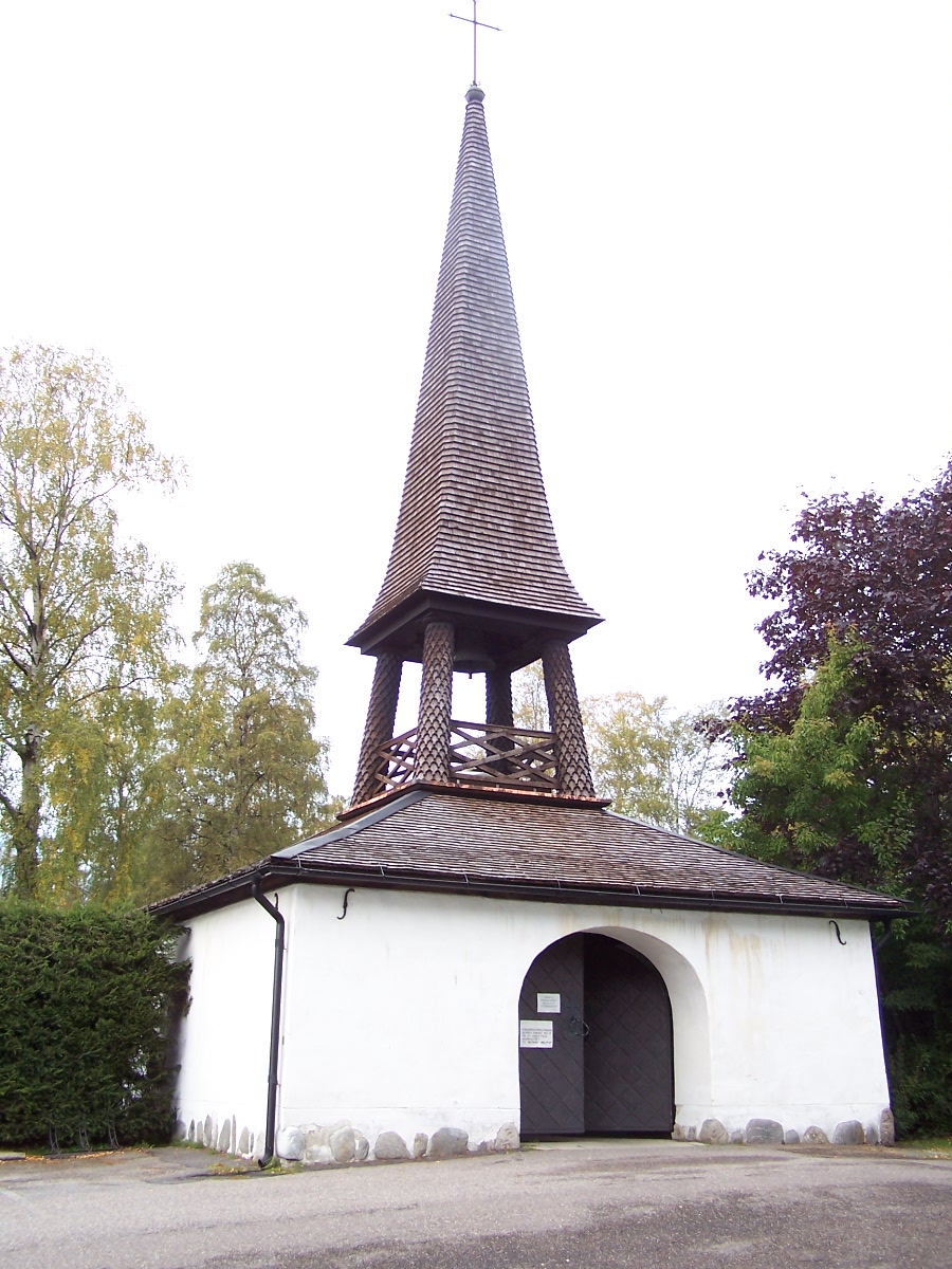 The entrance to Byns begravningsplats (Byn cemetery), Sundsvall, Sweden